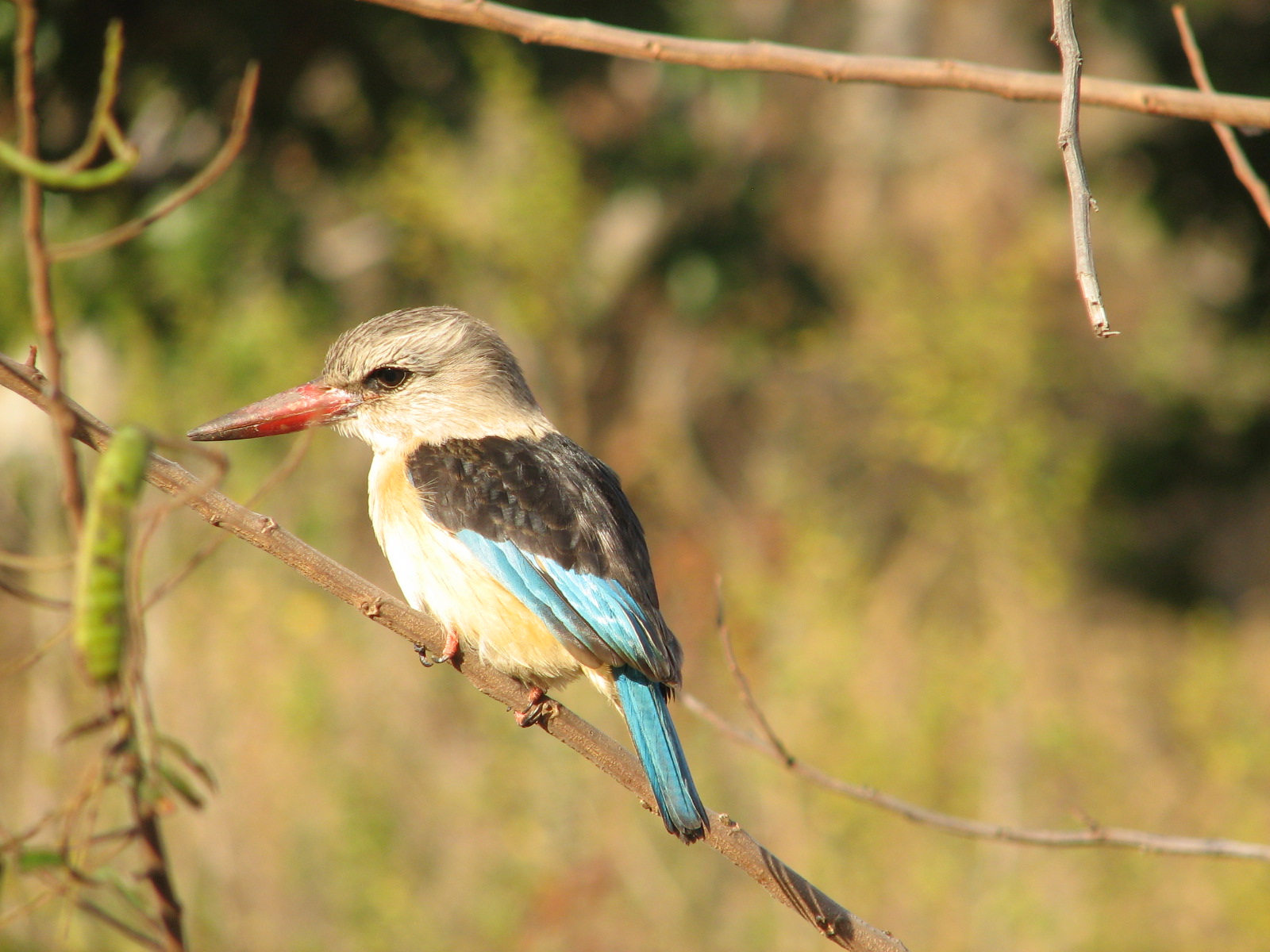 Photo of a Brown-Hooded Kingfisher (Halcyon albiventris) taken in the Kruger National Park near Mopanie rest camp.